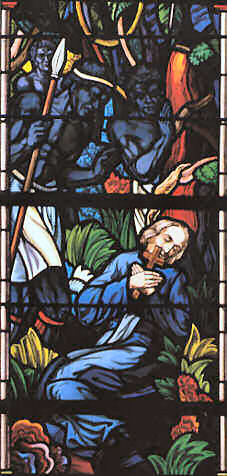 Stained glass window of the church in Bazoges-en-Paillers presenting the discovery of abbot Pierre Brénugat's corpse in the jungle of Guyana near Kononama.